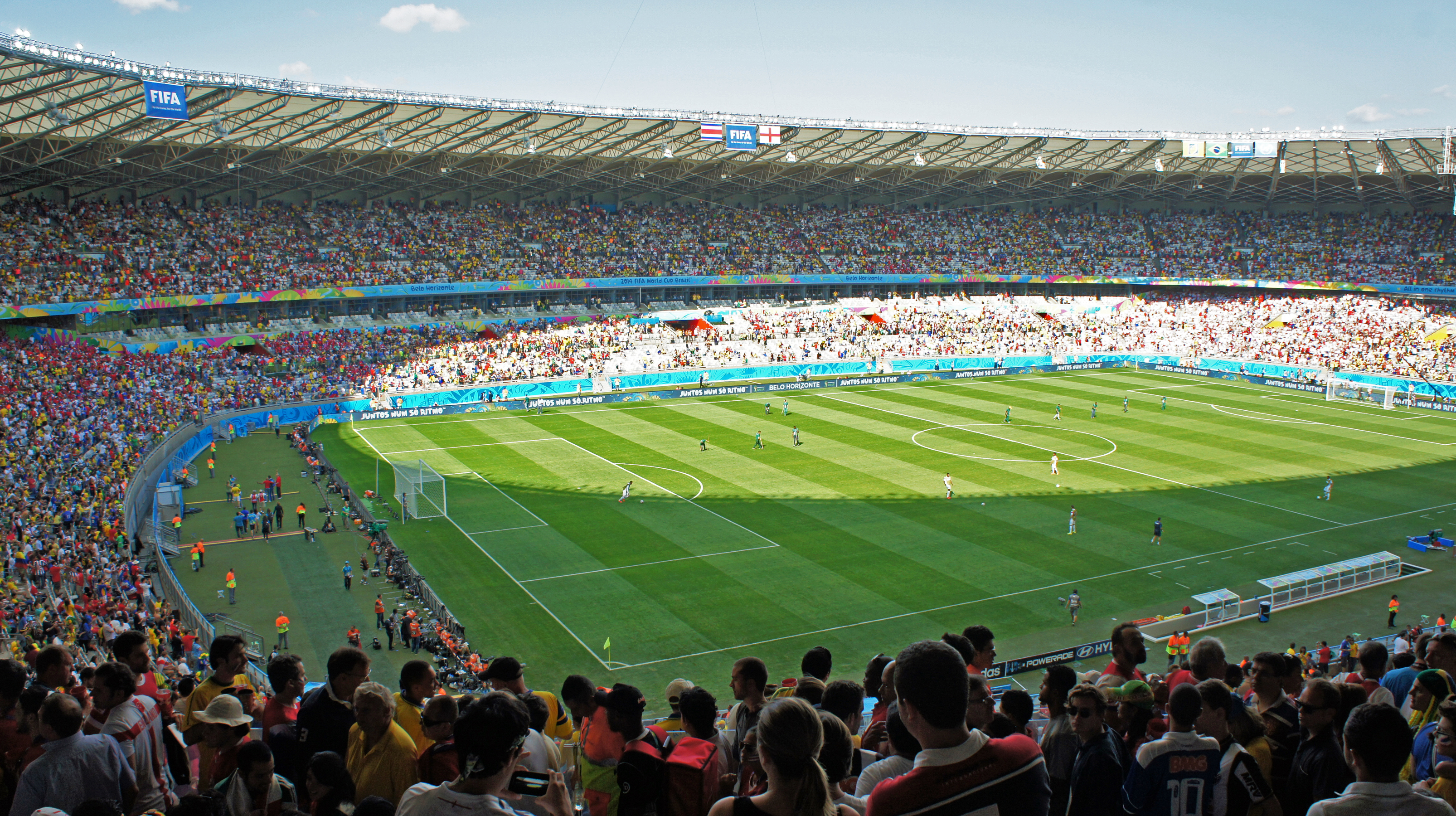 Estádio Mineirão in Belo Horizonte during the Costa Rica-England match at the 2014 FIFA World Cup, Brazil.